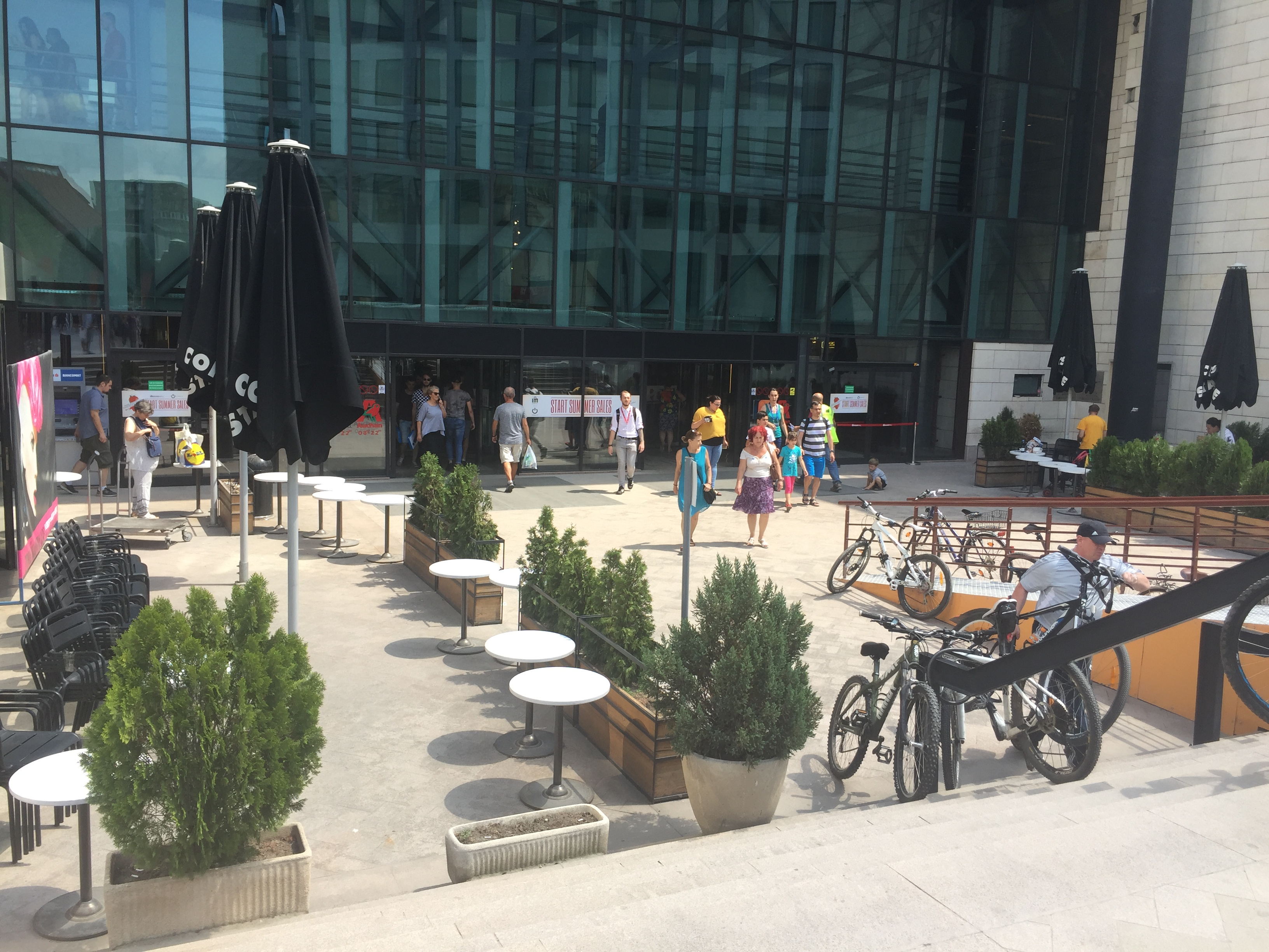 Exterior of Iulius Mall Timisoara